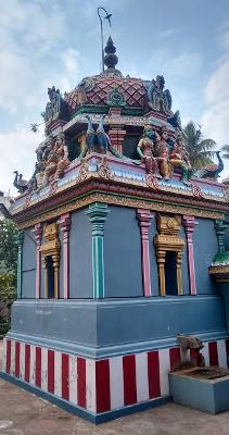 Thanjavur chinna arisikkara street murugan temple தஞ்சாவூர் சின்ன அரிசிக்காரத்தெரு முருகன் கோயில்